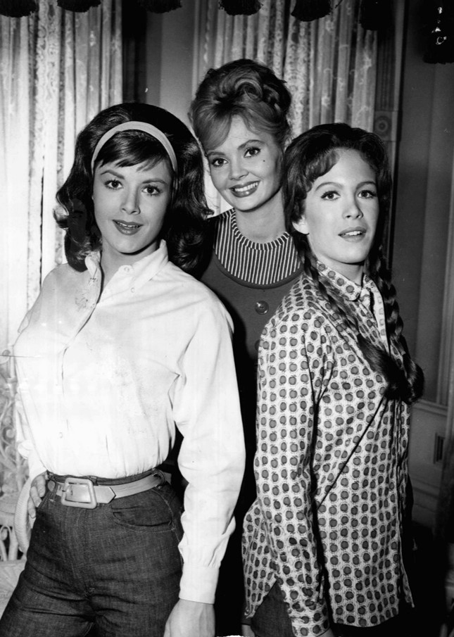 Photo of the Bradley sisters from the television series Petticoat Junction. From left - Pat Woodell (Bobbie Jo), Jeannine Riley (Billie Jo) and Linda Kaye Henning (Betty Jo).